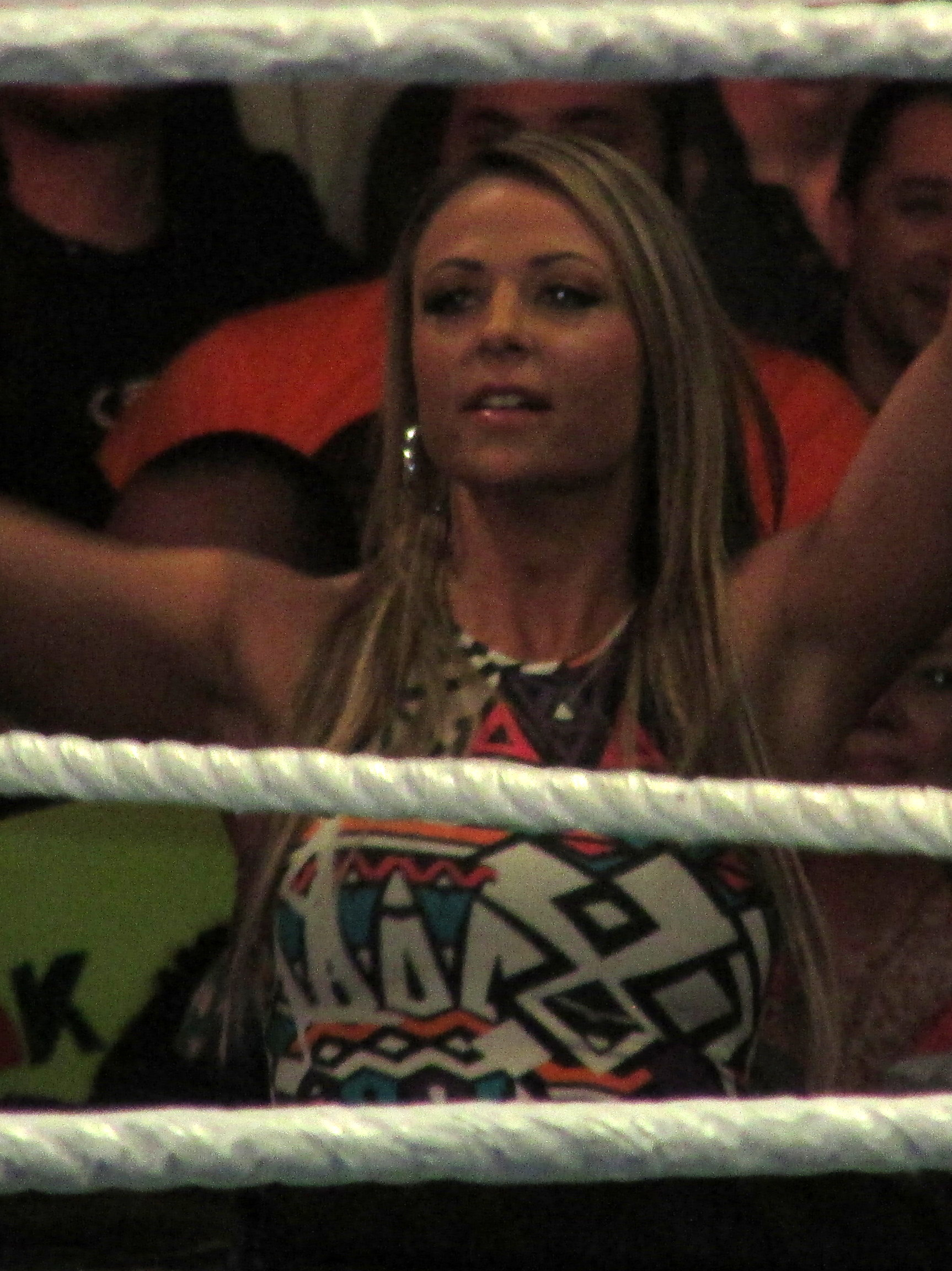 Emma (real name Tenille Dashwood) showing up at Raw as part of the Emmalution on January 27, 2014. Cropped from original.